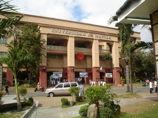 Richard Relucio